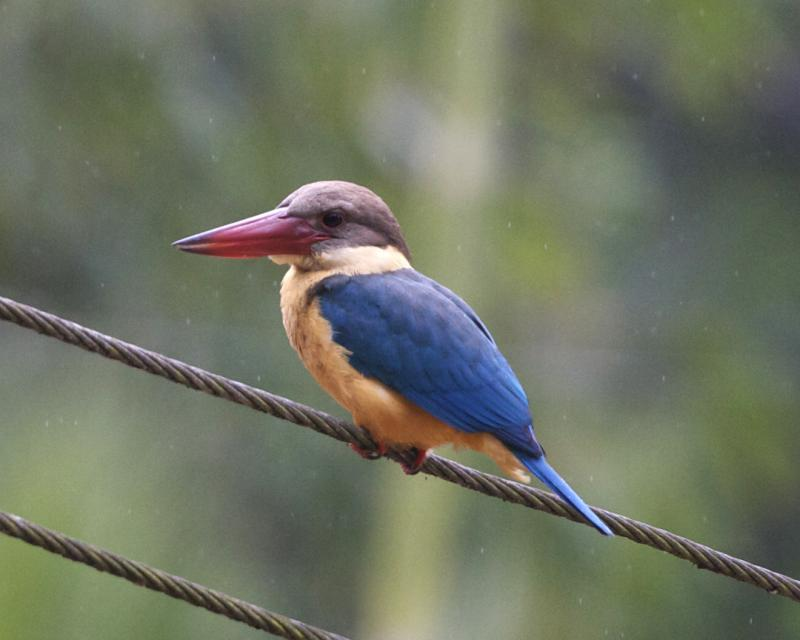 Stork-billed Kingfisher Pelargopsis capensis Nominate race, Pelargopsis capensis capensis Kandy Lake, Sri Lanka Elevation: 500m 5th. February 2011 Disribution: 690V8883